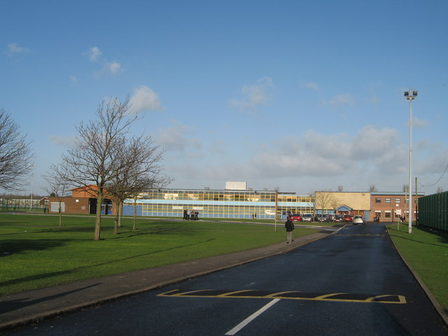 Bankfield School, Liverpool Road The Bankfield School achieved specialist science college status in September, 2004 and is partnered with the Catalyst Museum and Science Discovery Centre.